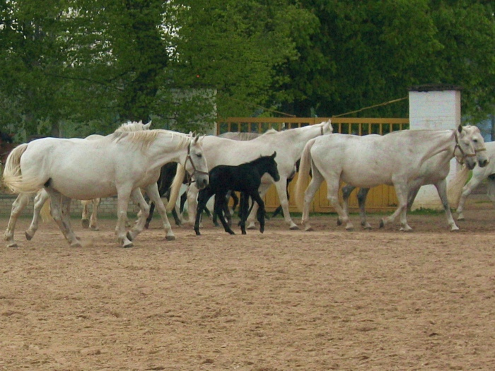 Kladruber mares returning to the stables